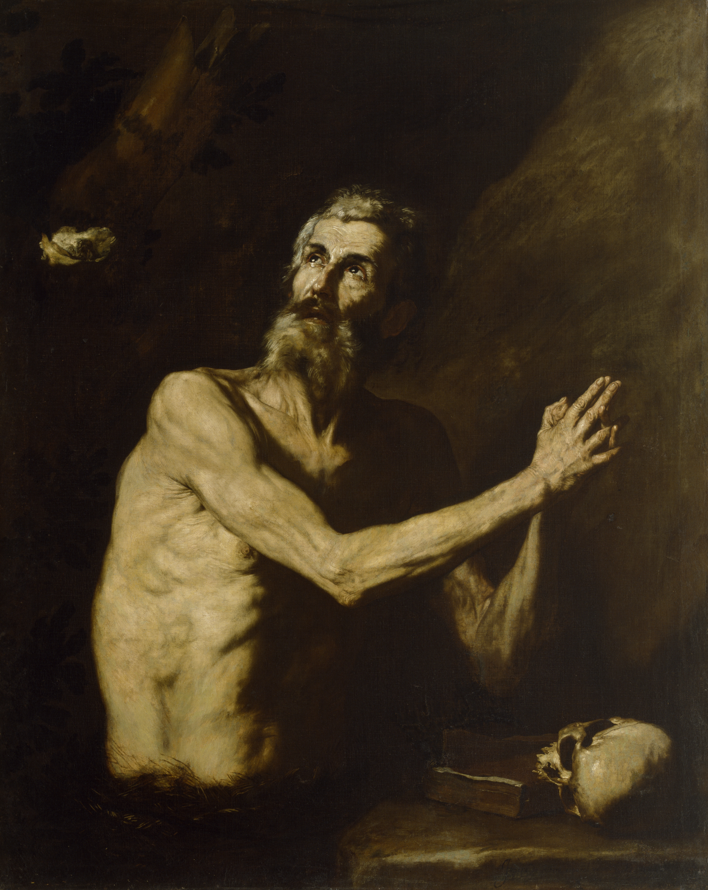 Paul the Hermit was a 3rd-century saint who escaped persecution by retreating to the Egyptian desert, where he lived in continual meditation until he was more than 100 years old. The raven that sustained Paul by bringing him bread each day appears at the upper left. The skull prompted his meditation on the brevity of human life. Ribera was born in Spain but worked in Italy. His use here of stark contrasts of light and dark, made popular by the Italian painter Caravaggio (1571-1610), highlights the modeling of the saint's emaciated torso. The thick paint and textured brushwork that evoke the wrinkled skin contribute to the realism of the image. This is critical to the emotional impact on the viewer of Paul as a model of personal penance that was central to Counter Reformation Catholic devotion.